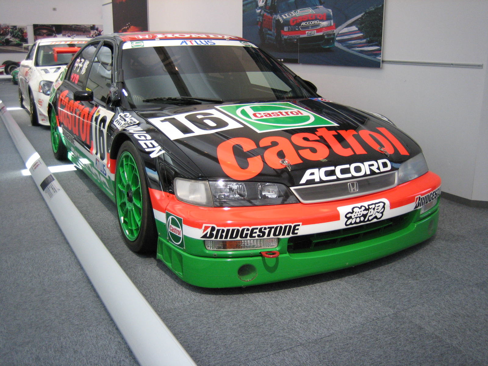 A photograph was taken in the Honda collection hole.